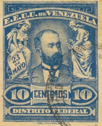 1905 stamp of Cipriano Castro.